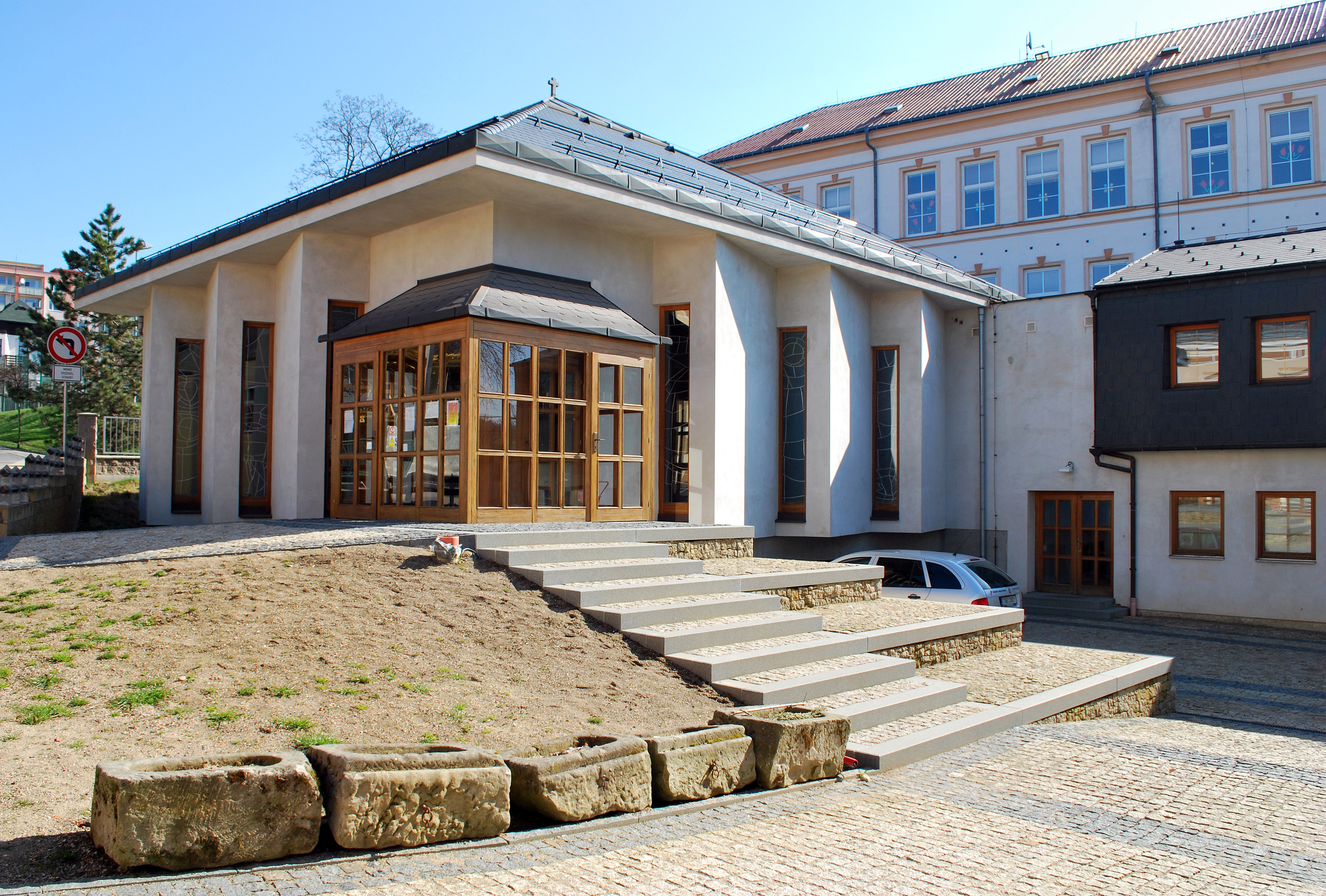 The Chapel of Resurrection, Vratislavice nad Nisou Česky: Kaple Vzkříšení, Vratislavice nad Nisou